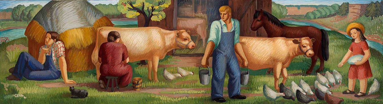 "Rural Scene, Wakarusa Valley" mural study for the U.S. Post Office at Mount Carroll, Illinois by Irene Bianucci, ca. 1941